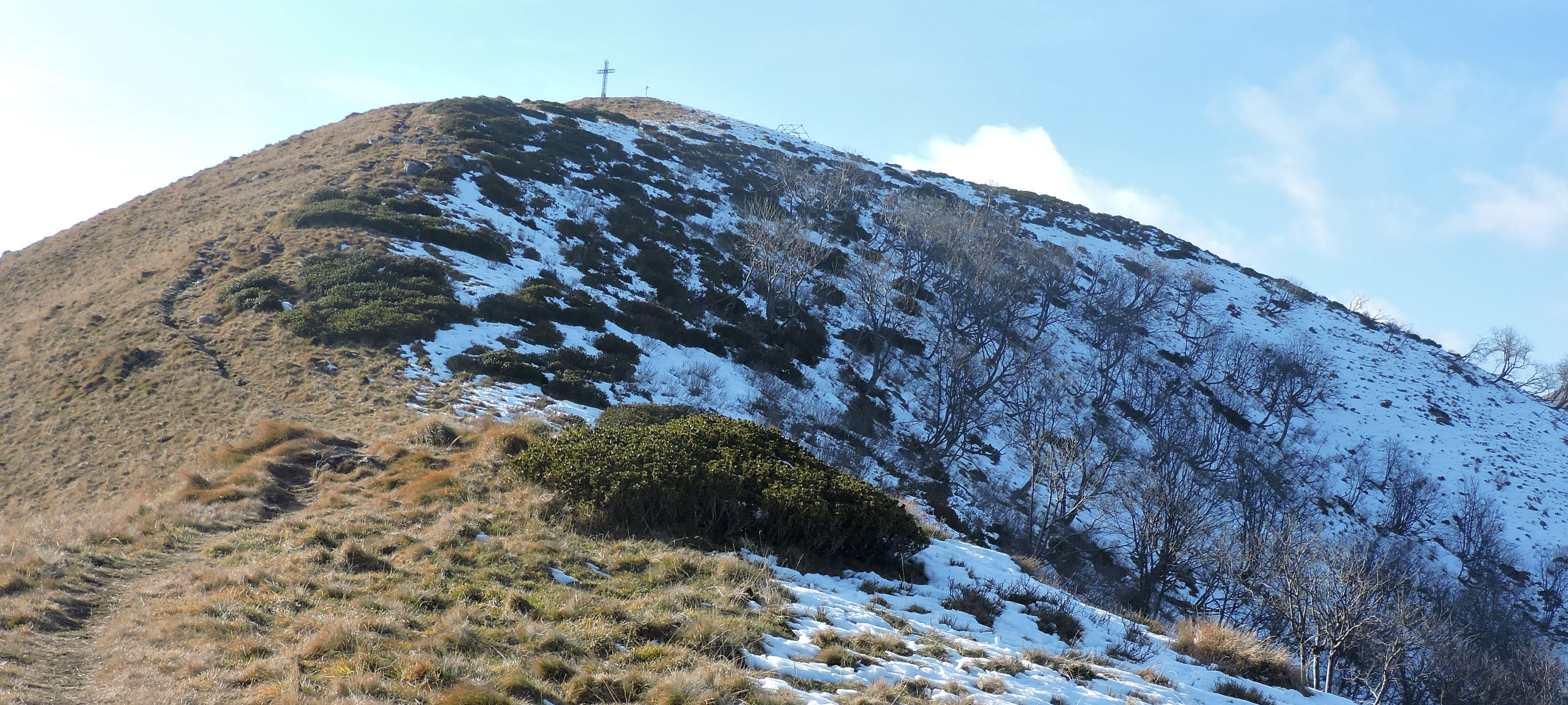 Monte Croce (Alpi Cusiane, Italy)